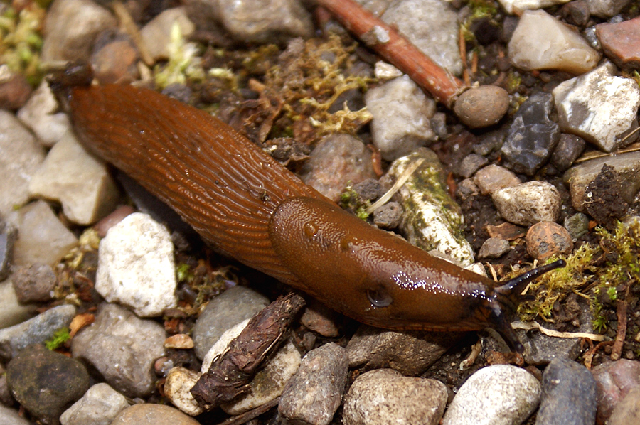 Photo of Spanish slug (Arion vulgaris, from Copenhagen, 15th June 2008)